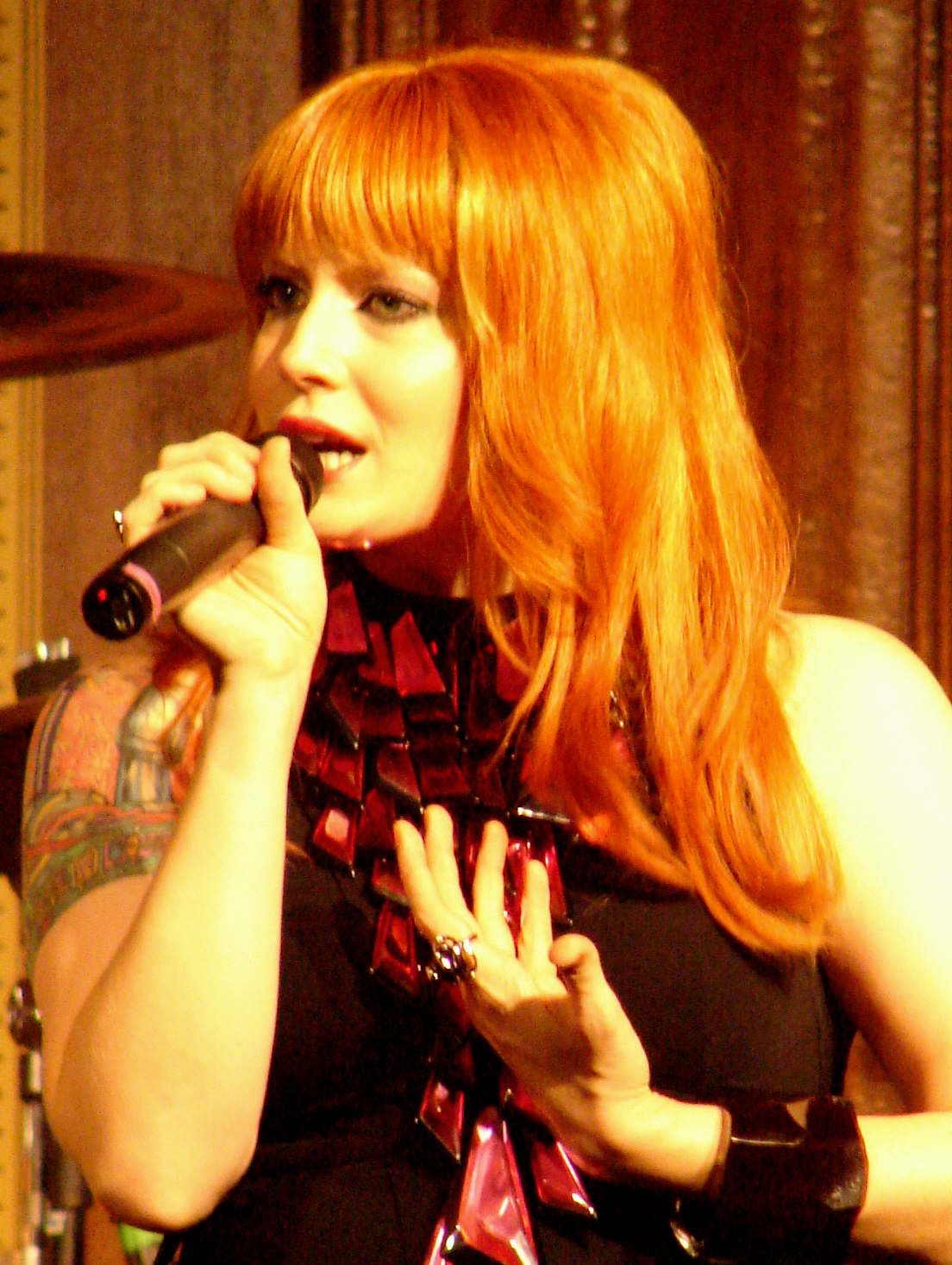 Scissor Sisters at Roseland Theater Portland,OR